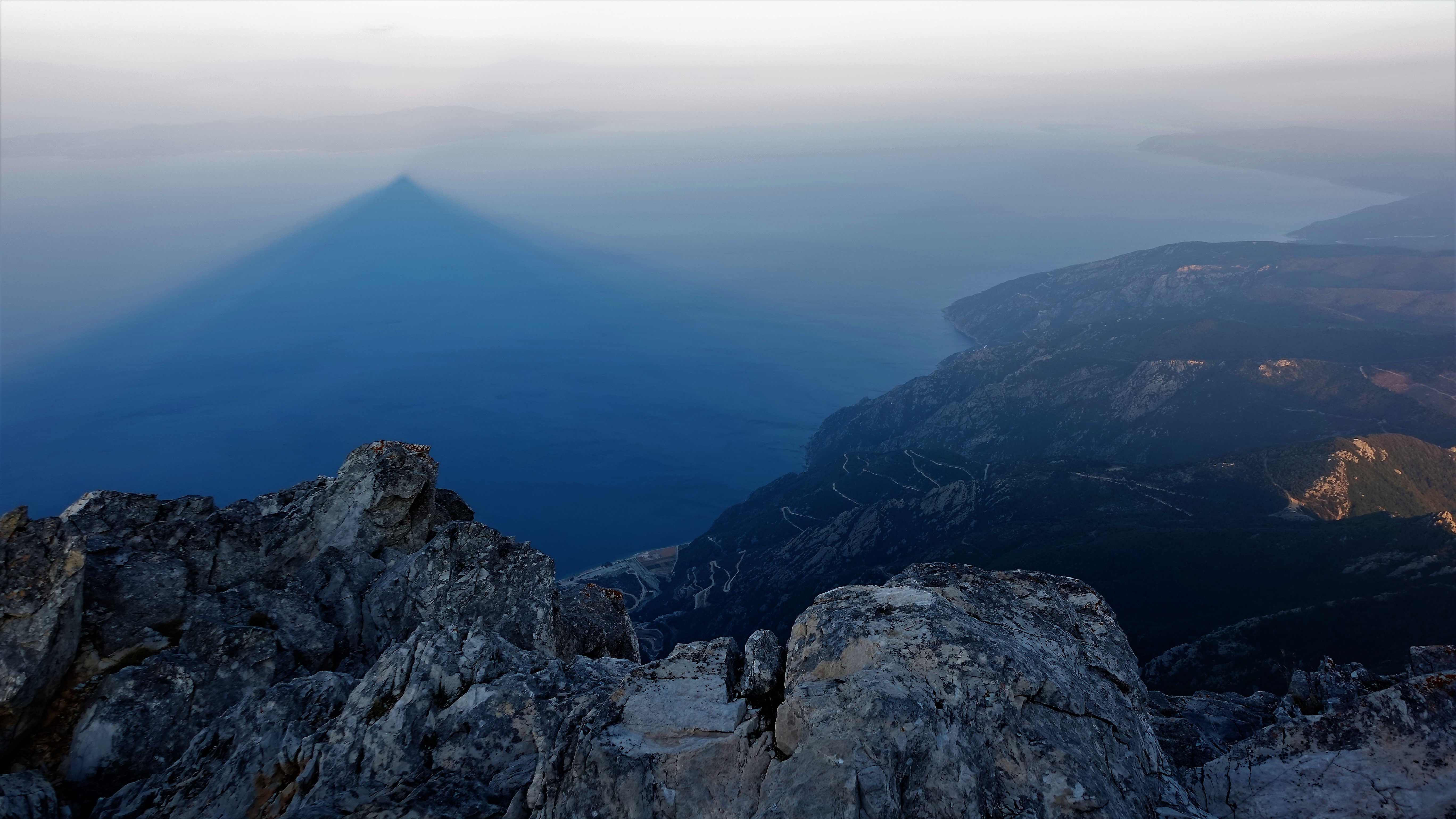 Sunrise on Mt.Athos, the rising sun projects the triangular siluette of Mt.Athos onto the Aegean Sea, peninsula Sithonia across in the morning haze